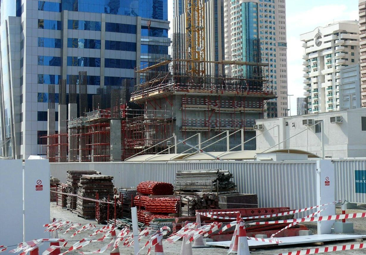 This is a photo showing the construction of the Rolex Tower, located along Sheikh Zayed Road in Dubai, United Arab Emirates, on 28 December 2007.